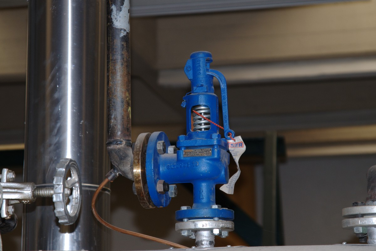 A european standard steam boiler safety valve (PN16, DN25)